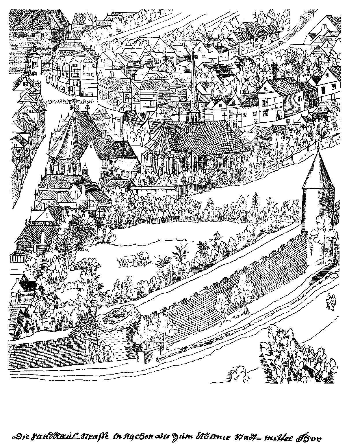 Sandkaul street in Aachen up to the Kölnmitteltor